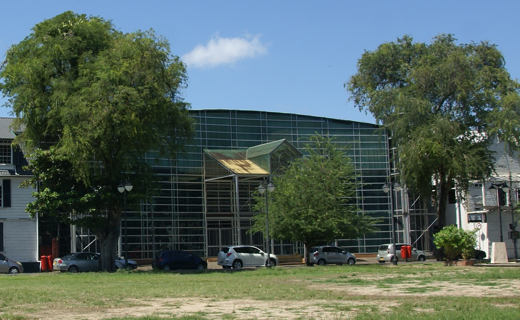 Congreshal, Onafhankelijkheidsplein, Paramaribo, Surinam.